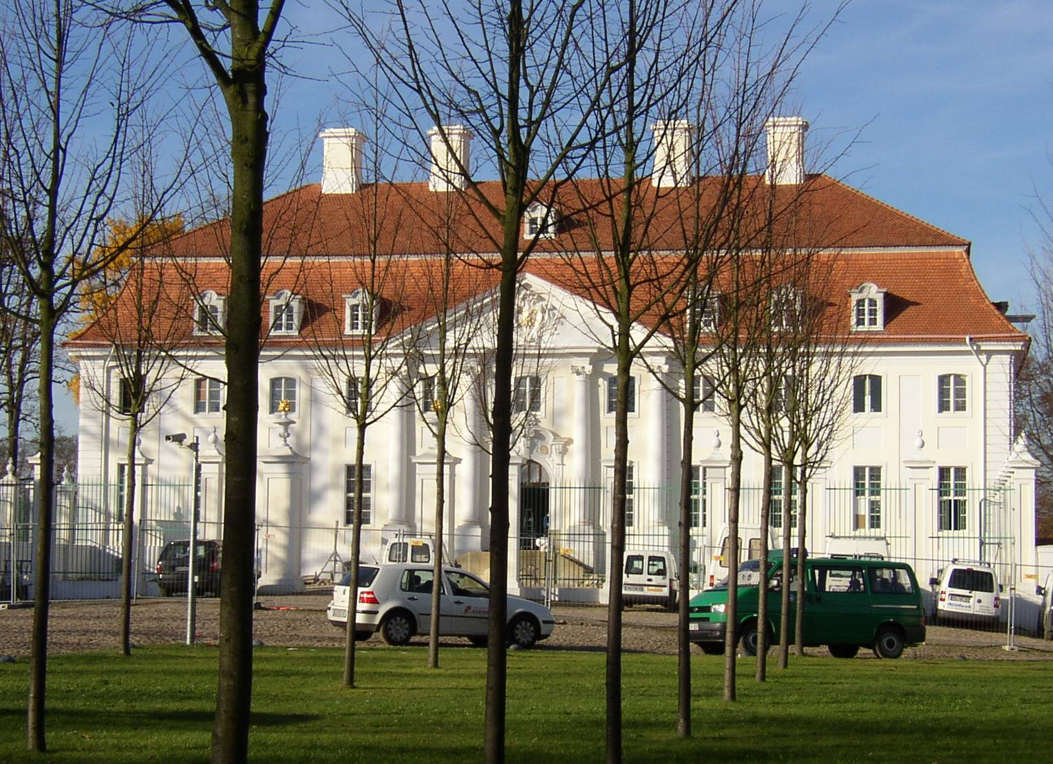 Palace in Gransee-Meseberg, Brandenburg, Germany